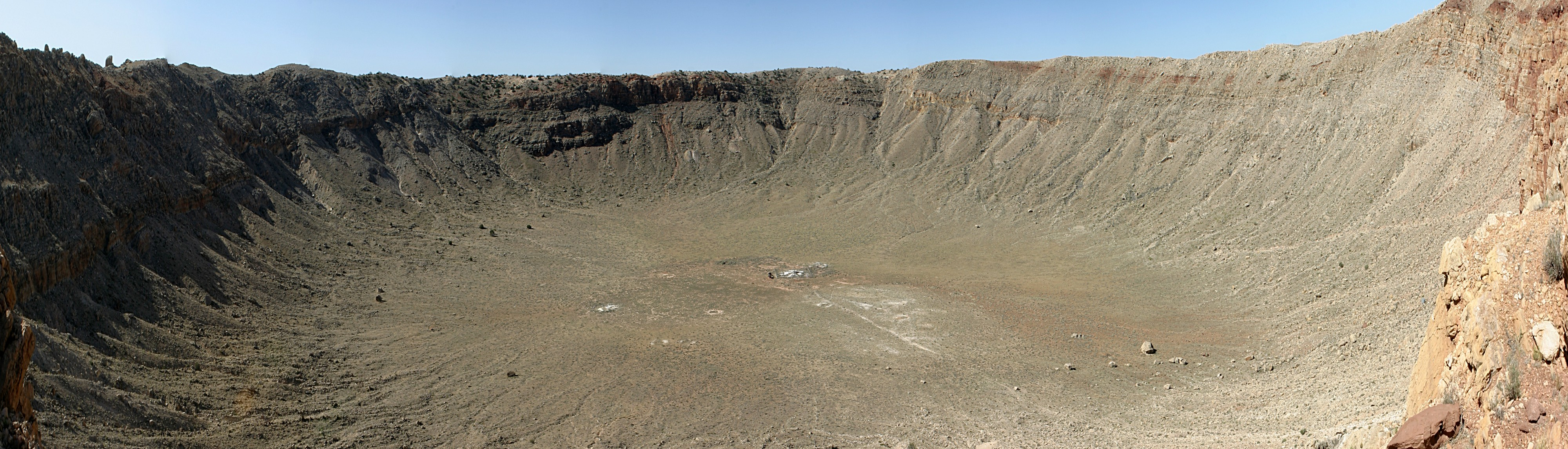 Panoramic image of Meteor Crater (aka Barringer Crater) made up of 9 images taken from the south rim from the lower viewing deck.